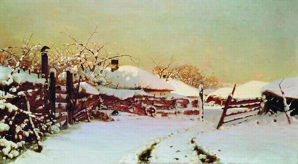 Nikolay Dubovskoy. Winter, 1884. Tretyakov Gallery, Moscow